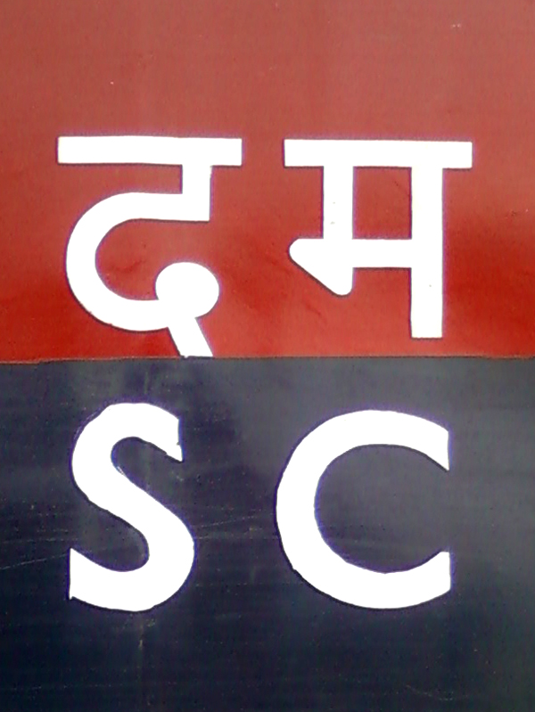 Shortened form of South Central Railway Zone (Both in Hindi and English Languages). Painted on Medchal-Falaknuma DEMU Local Train, Malkajgiri, Secunderabad